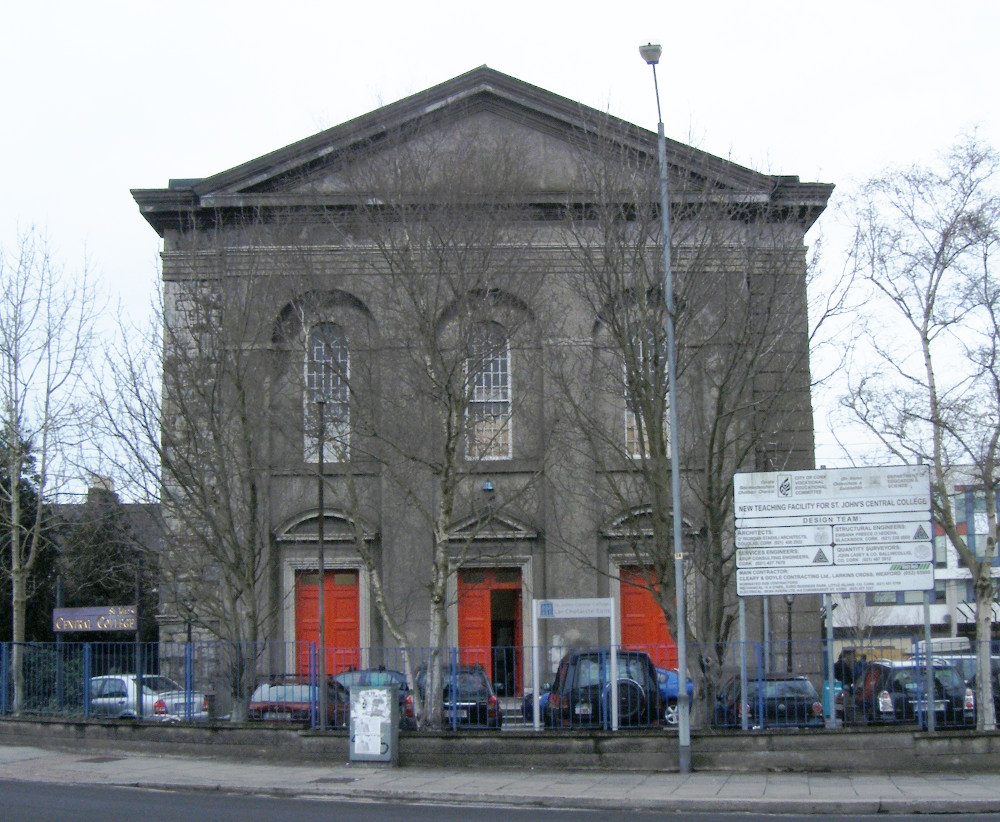 The front of St. John's Central College, church building. Built in 1840, it is the oldest part of the college. Location is Sawmill Street, Cork City, County Cork, Republic of Ireland